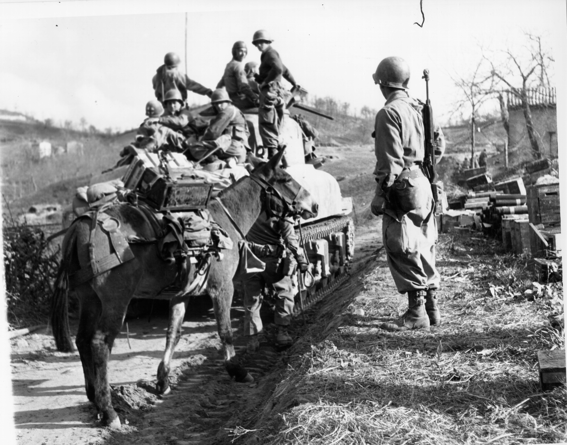 During the air preparation of the big "push" in Italy by the U.S. Fifth Army, the men, mules, and armor of the 10th Mountain Division and supporting tank units move forward between 8:30 A.M. and 9:10 A.M., 14 April 1945. Bologna, Italy.